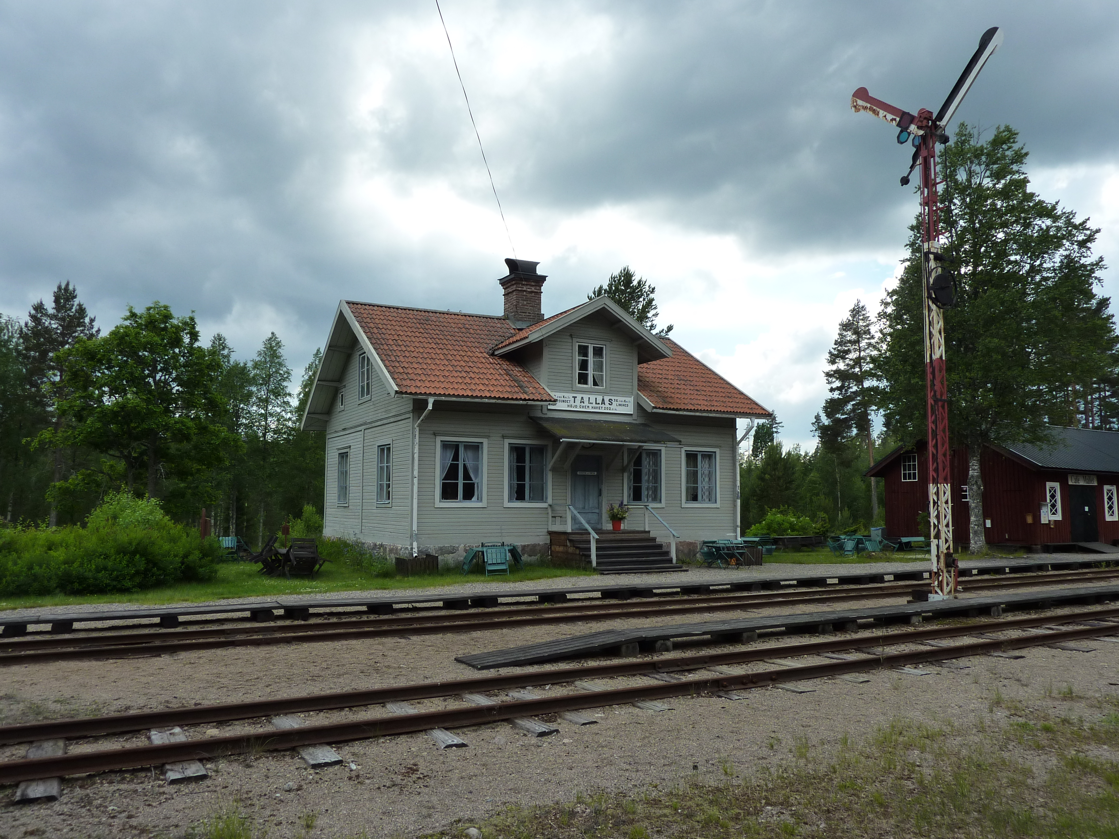 Railway station Tallås at Jädraås - Tallås museum-railway in Sweden